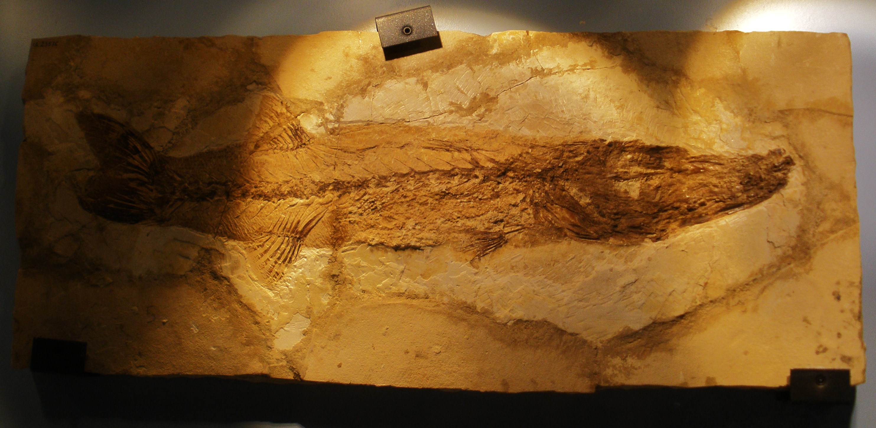 Fossil of Sphyraena bolcensis, an extinct fish